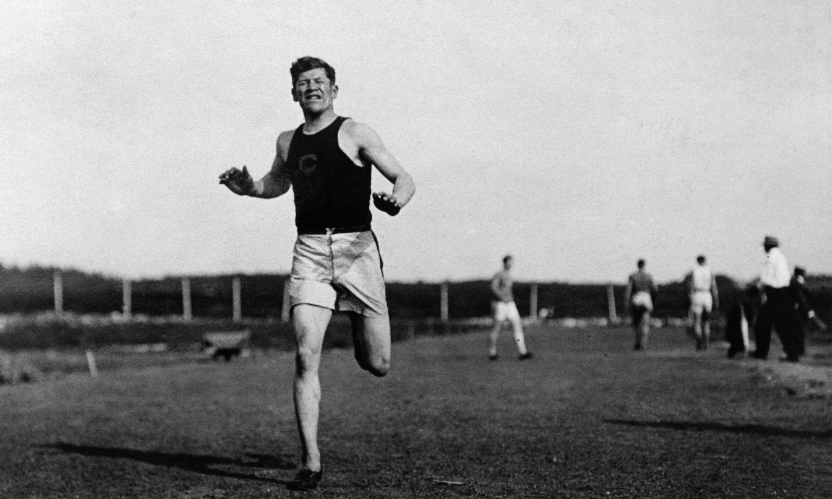 Jim Thorpe